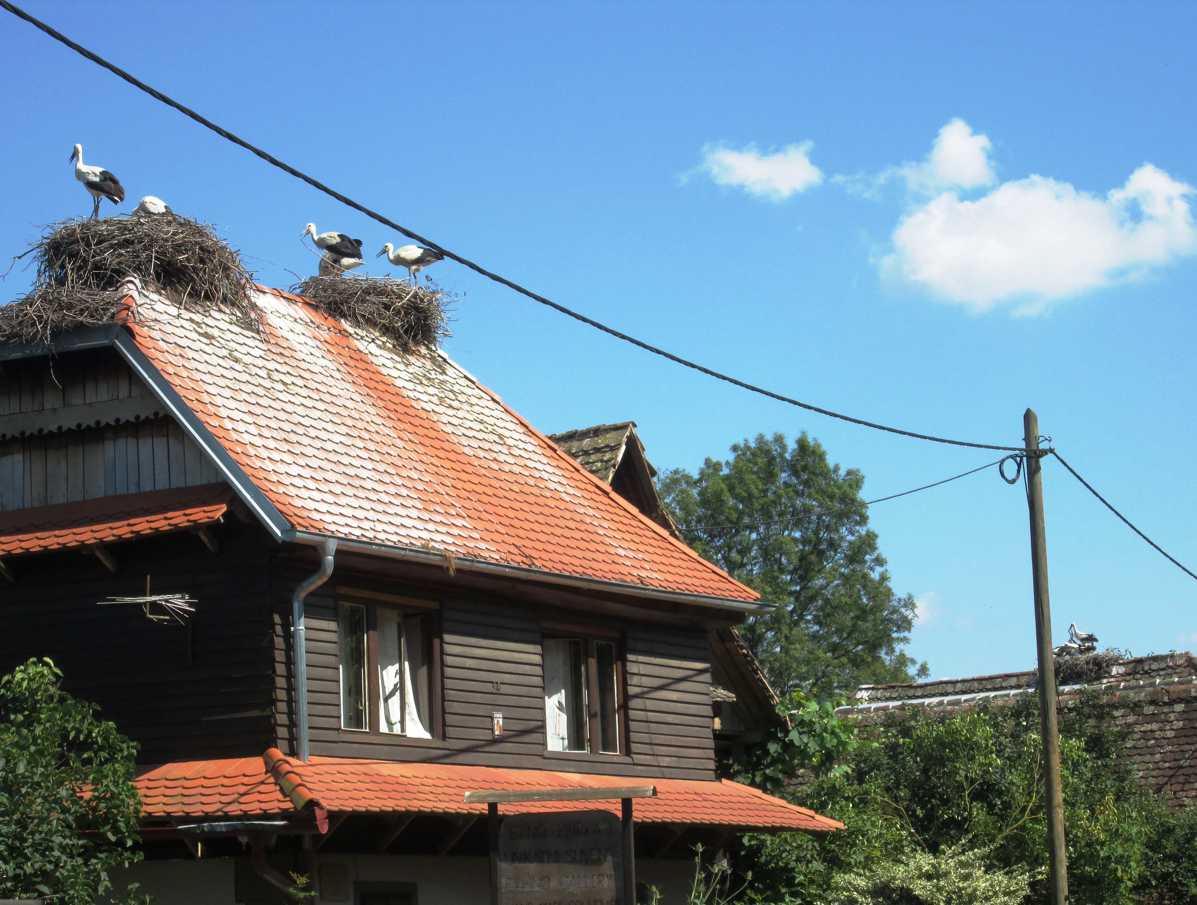 Village of Cigoc in Croatia, European Stork Village